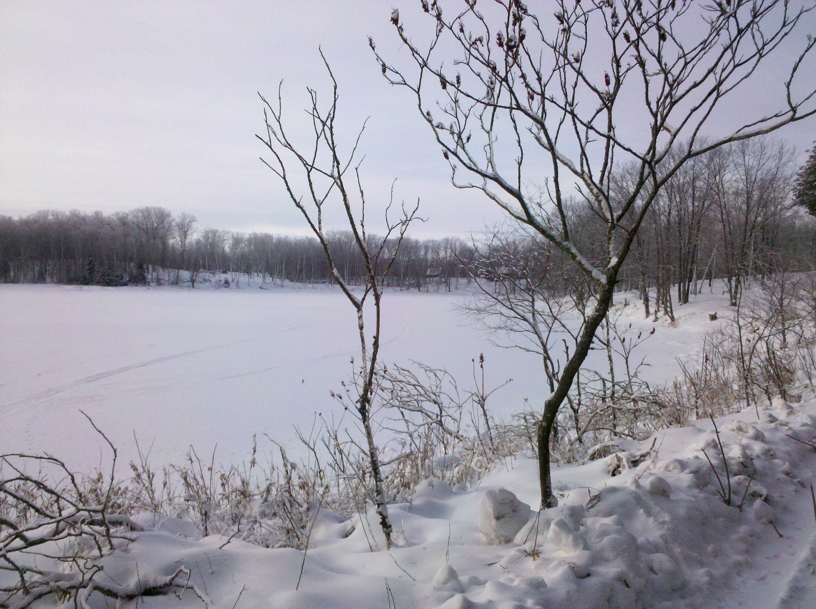 Westview of (officially) unnamed water body in Malmo Township, Minnesota Note some refer to this as "Little Sugar" I prefer to honor the original homesteaders, and the name from my youth.